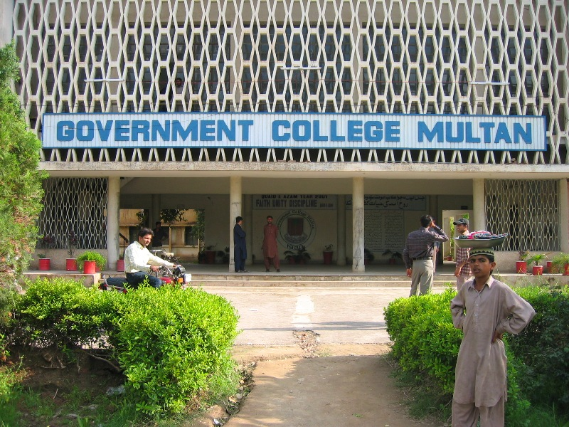 Government College Multan. Taken photo during a trip to Multan, Pakistan in 2005.